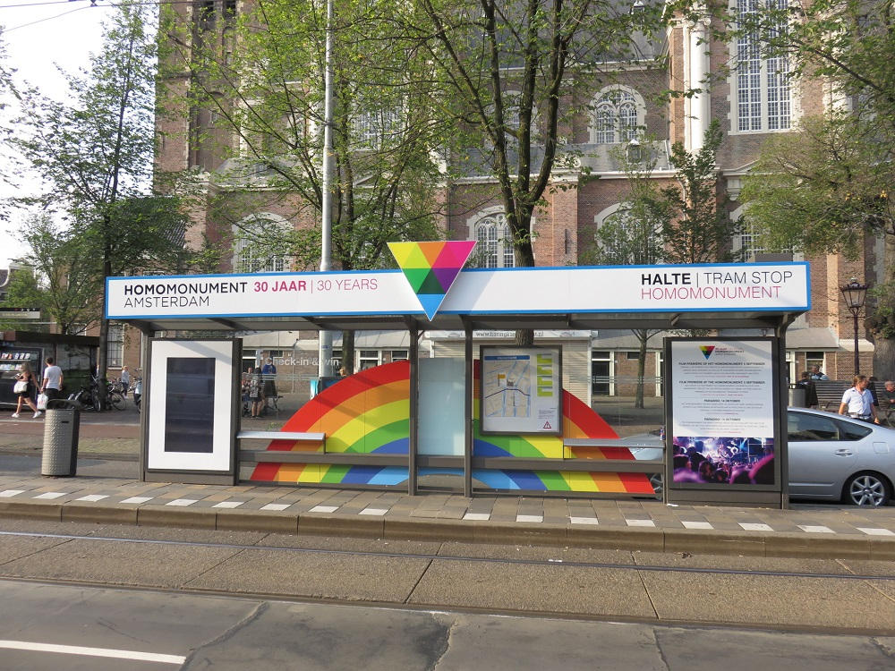 The tram stop at Westermarkt in Amsterdam, decorated to commemorate the 30-year anniversary of the nearby Homomonument, which was celebrated at September 5, 2017.